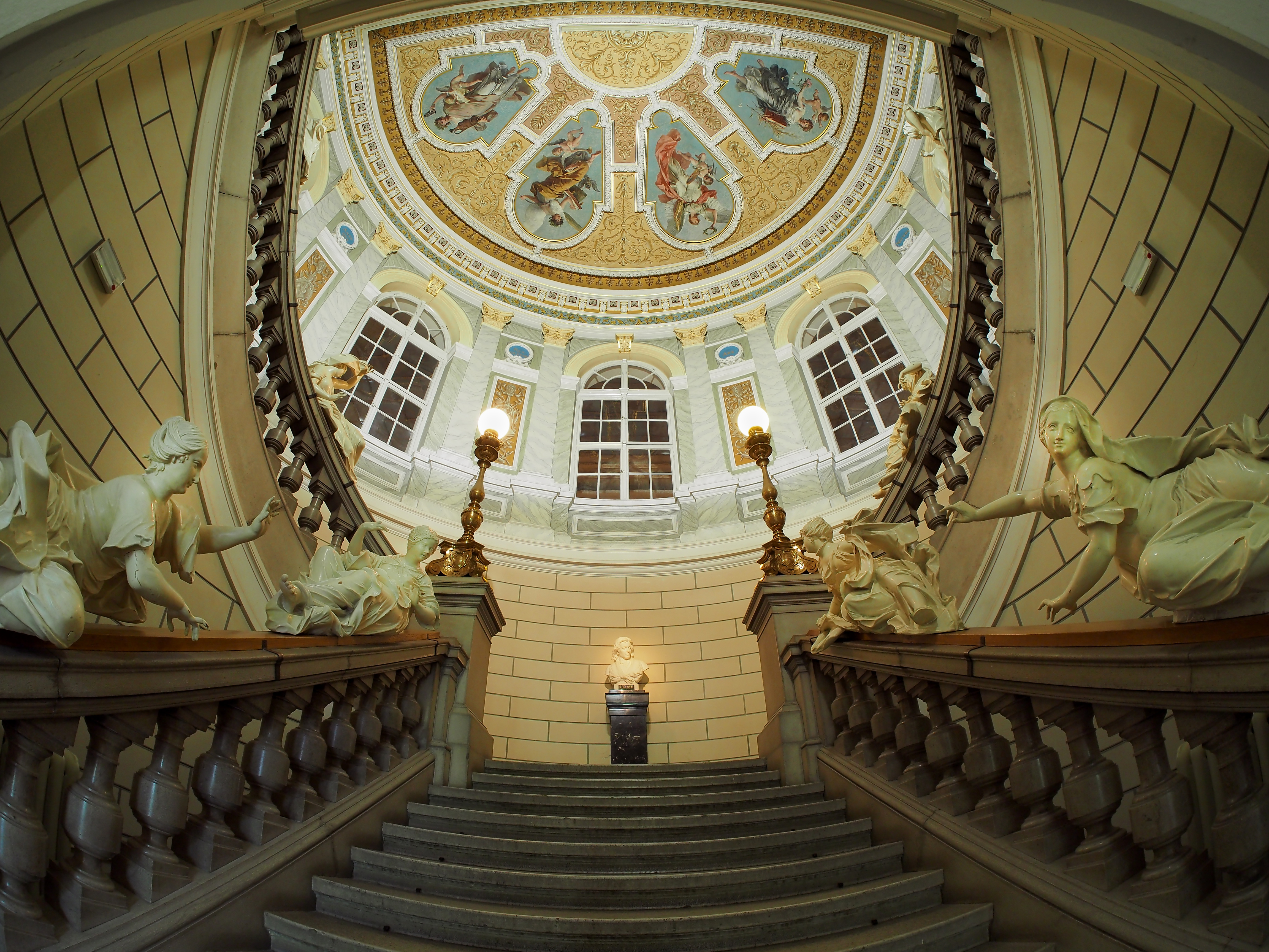 Staircase of National Museum of Slovenia. This photograph was taken with an Olympus E-P5